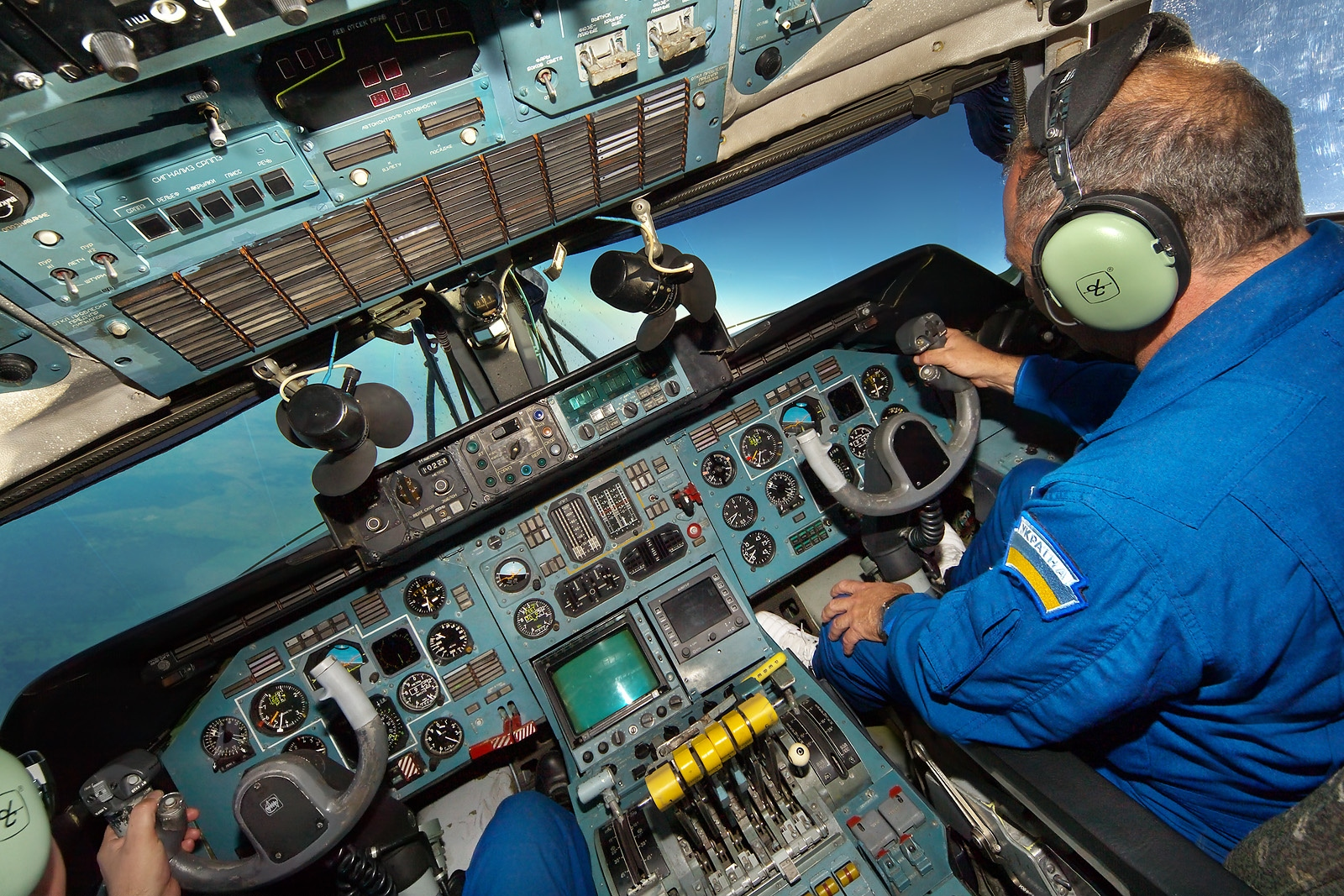 The world's largest aircraft is returning back home, making left bank on approach to Gostomel airport